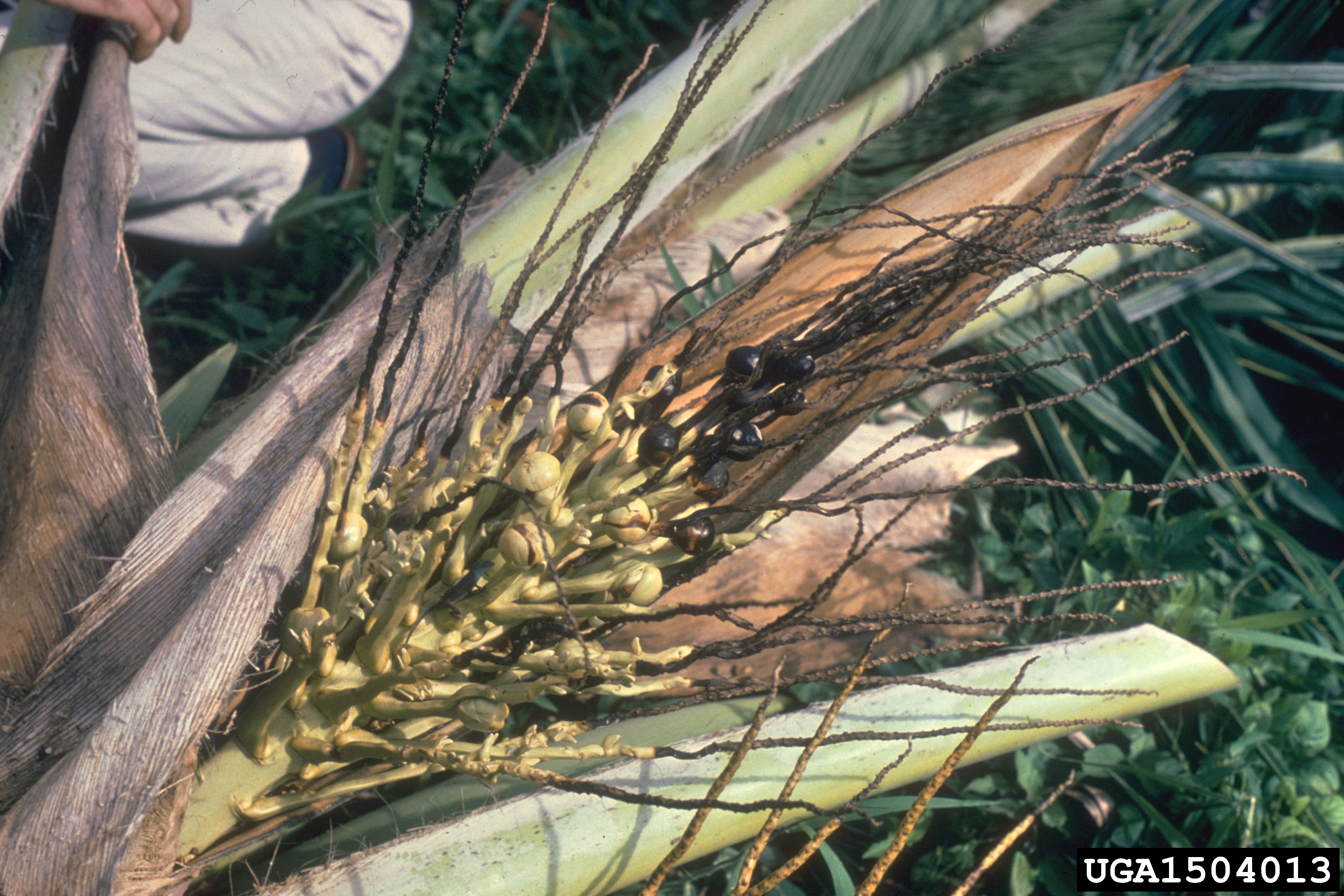 Palm lethal yellowing Candidatus Phytoplasma palmae - Symptoms